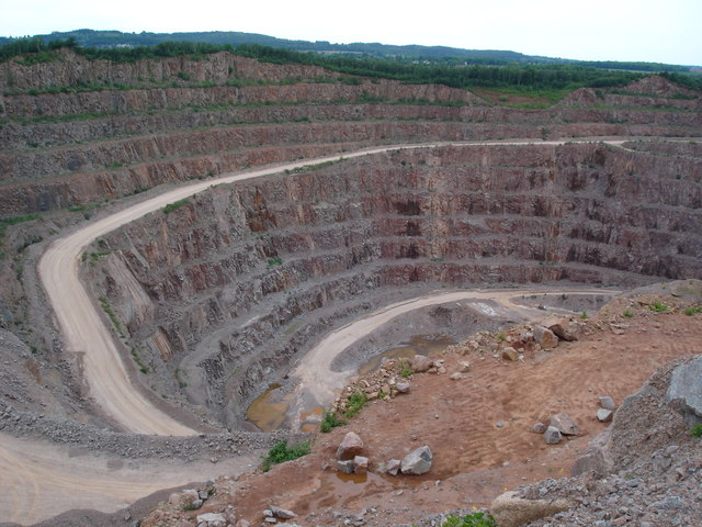 Buddon Quarry, Mountsorrel. Looking into 'The Pit'. The largest hard-rock quarry in Britain comprising a granodiorite most probably of Ordovician age (c450Ma). Can you see the tiny lorry at the bottom?